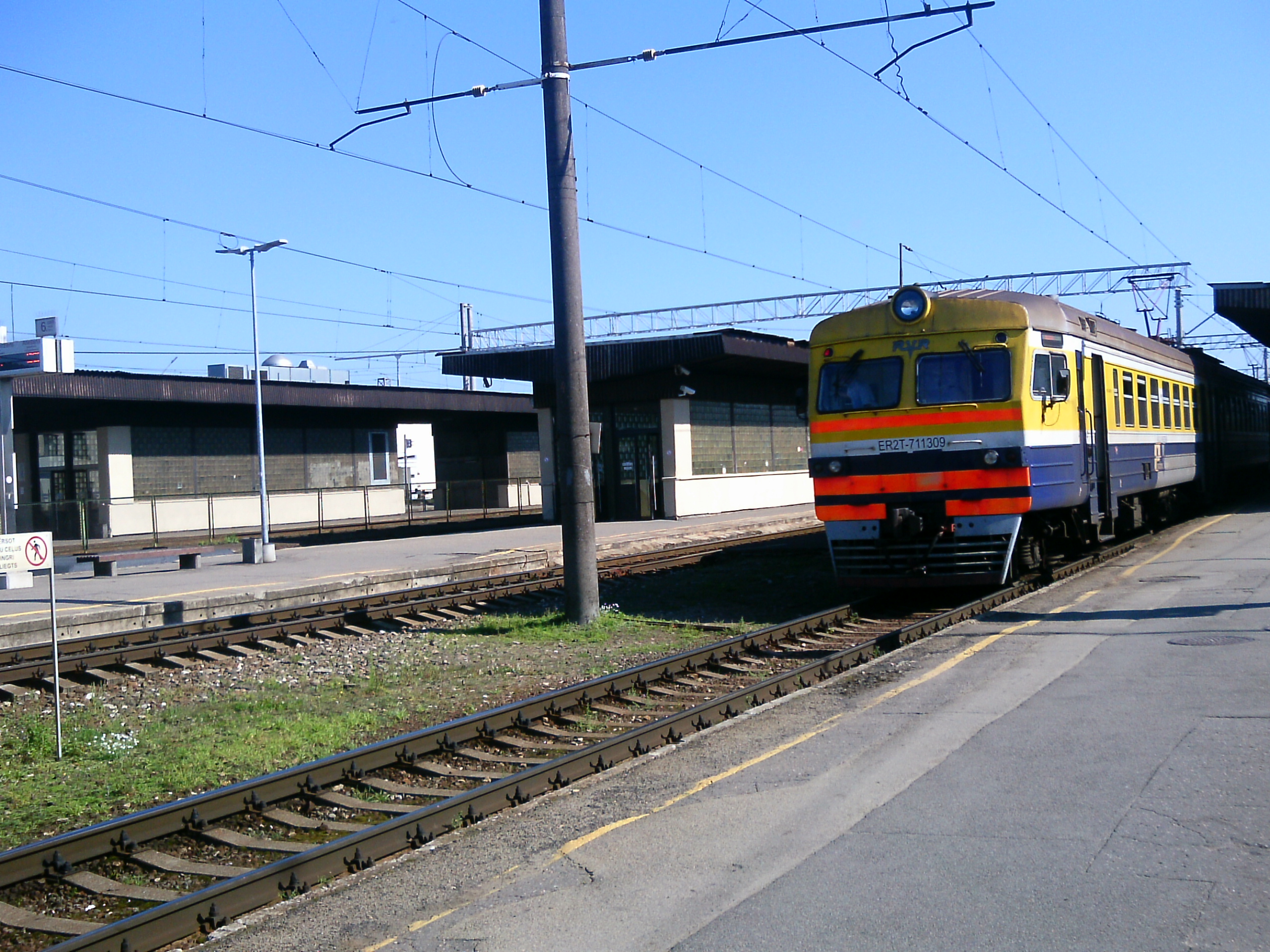 View from the railroads towards the main building